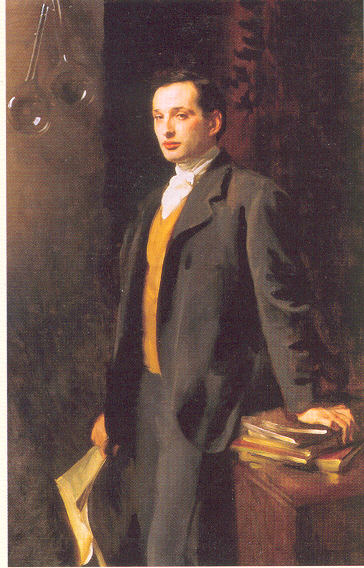 Alfred Wertheimer